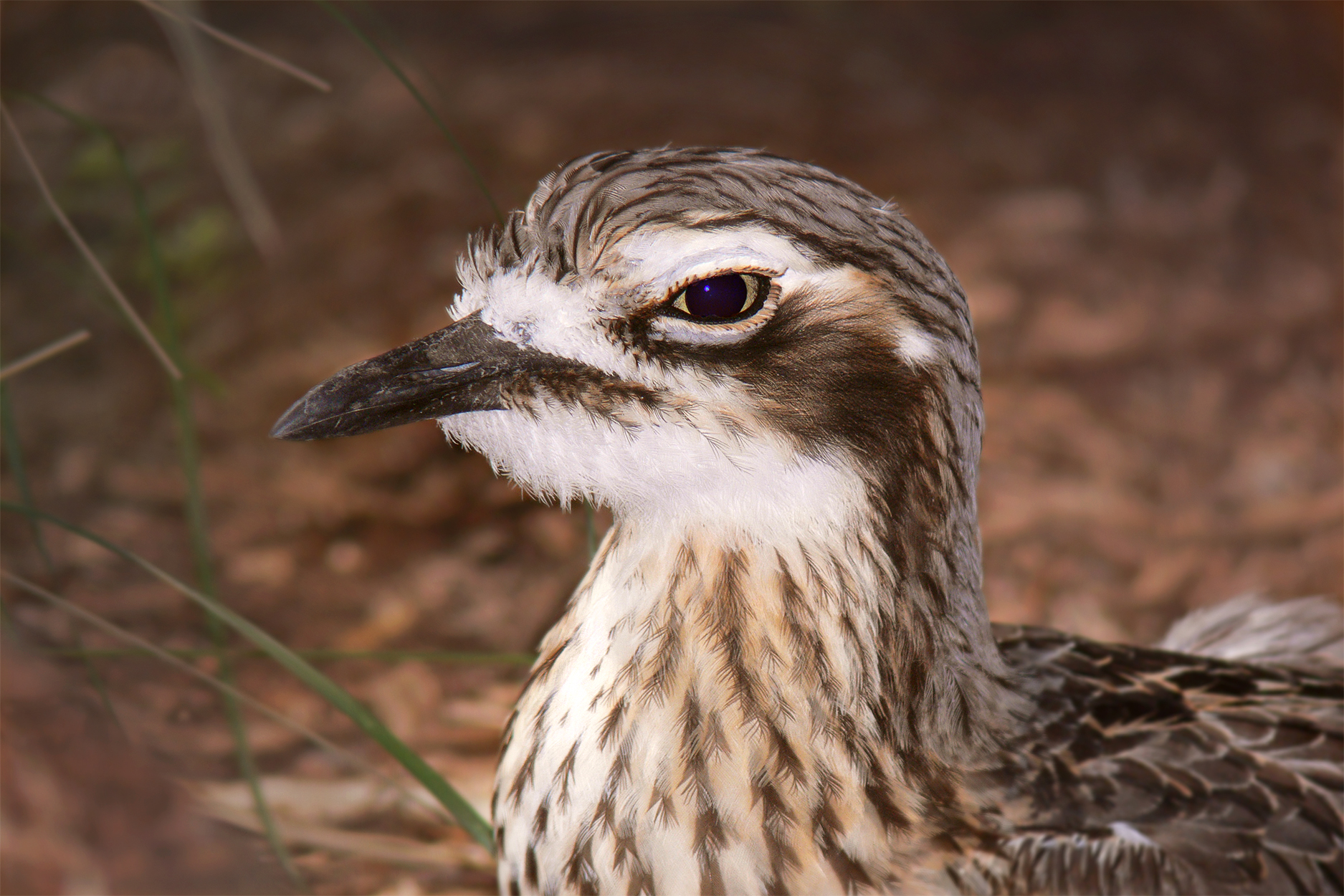 A Bush stone curlew, Burhinus grallarius, face shot. Taken in southern Australia at a wildlife sanctuary/rescue center.